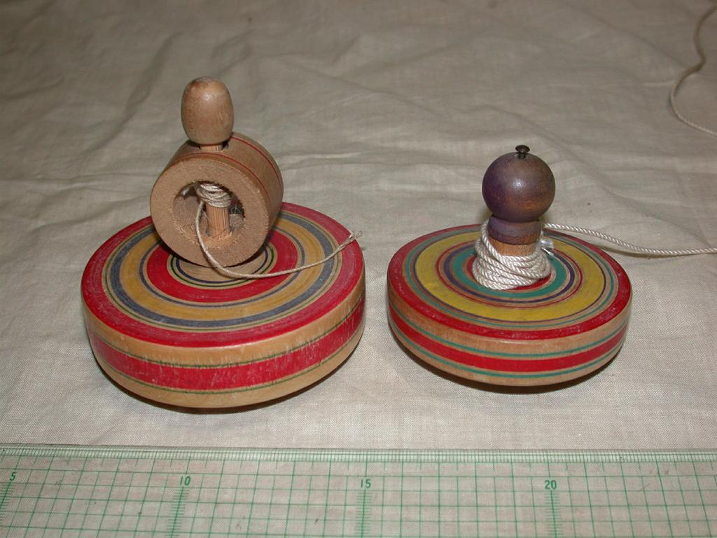 Japanese Spinning Tops:itomakigoma from my collection Author;Keisotyo